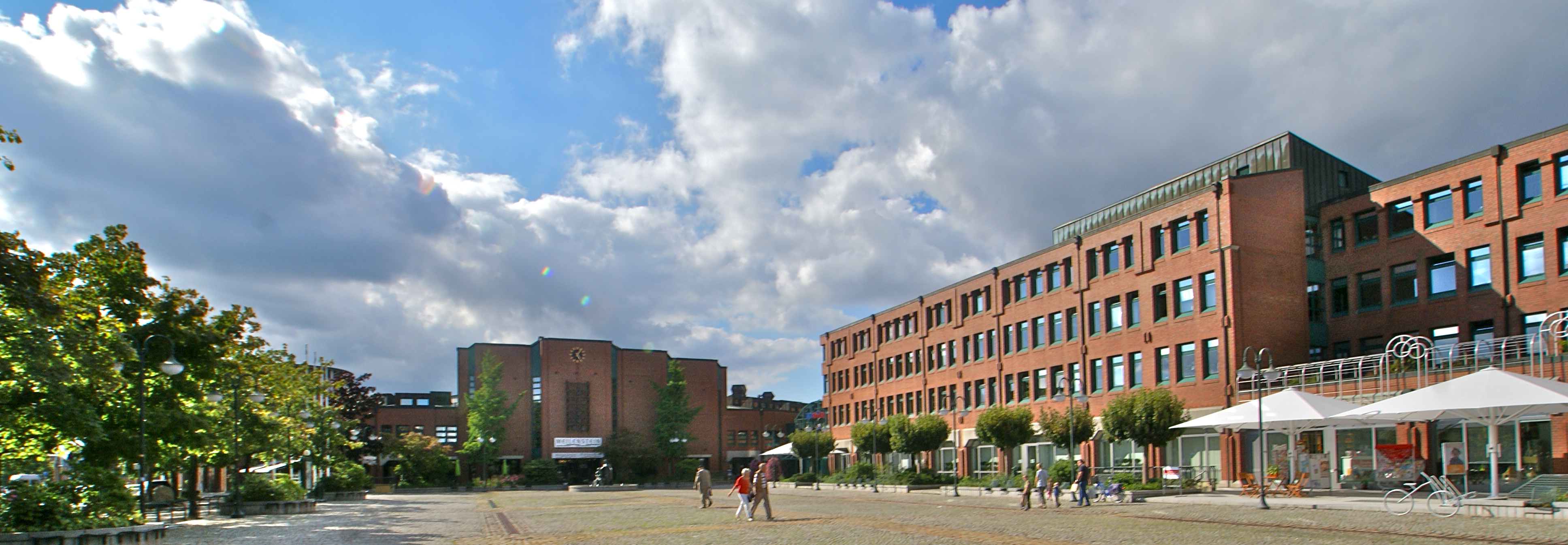 Norderstedt (Germany): Central square and town hall